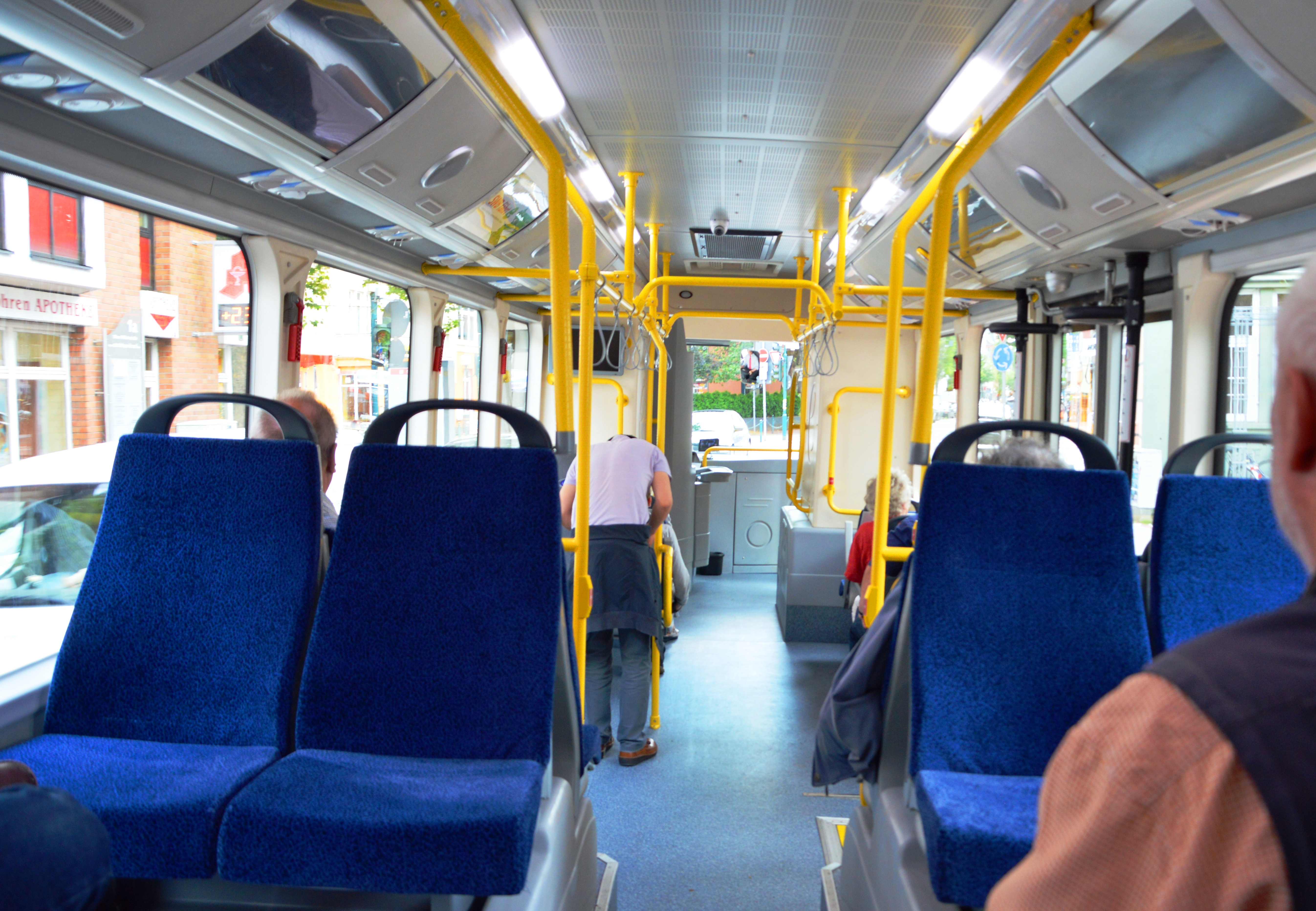 BYD ebus (electric bus). Test vehicle. Photo taken 2013 in Bonn, Germany. 中文（中国大陆）: 比亚迪K9. 在2013年在波恩举行的夏季测试车